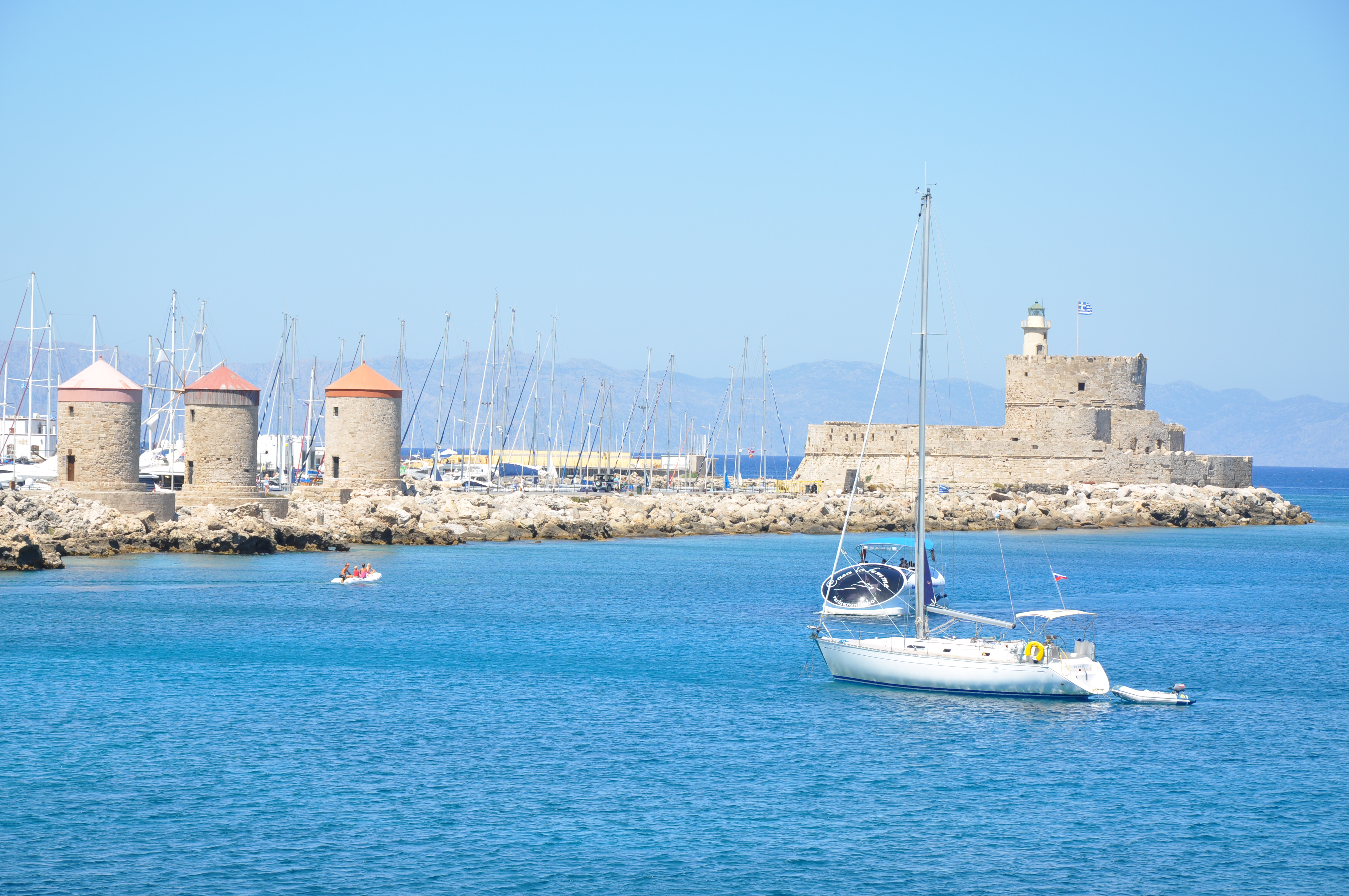 Agios Nikolaos Fortress and lighthouse in Rhodes